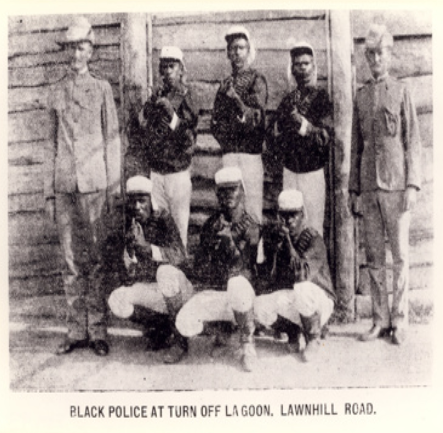 Native Police detachment at Turn Off Lagoon barracks 1898